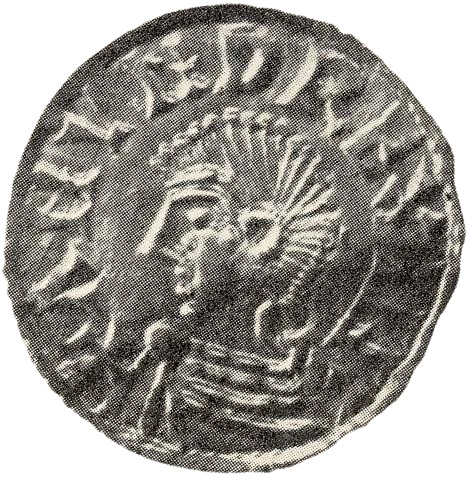 King Anwynd James (Anund Jakob) of Sweden as depicted on one of his coins